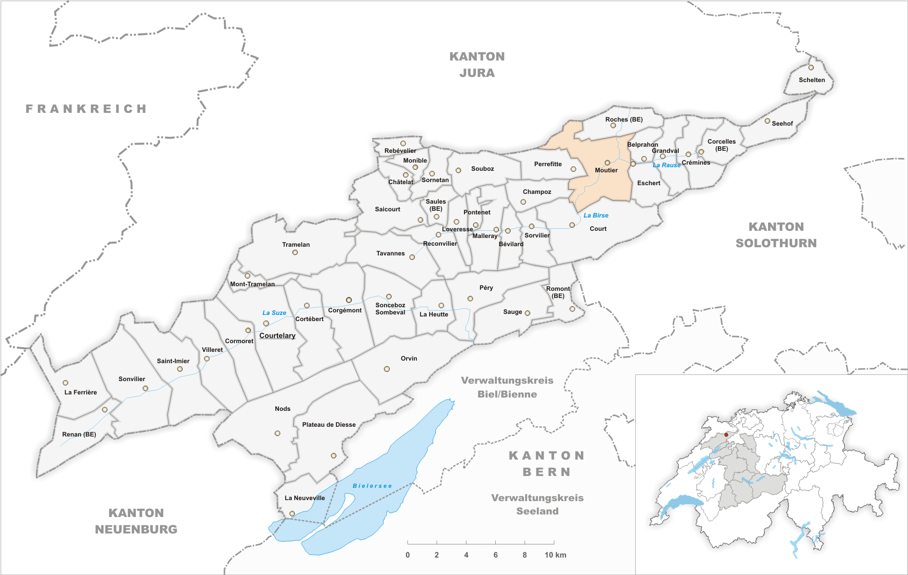 Municipality Moutier